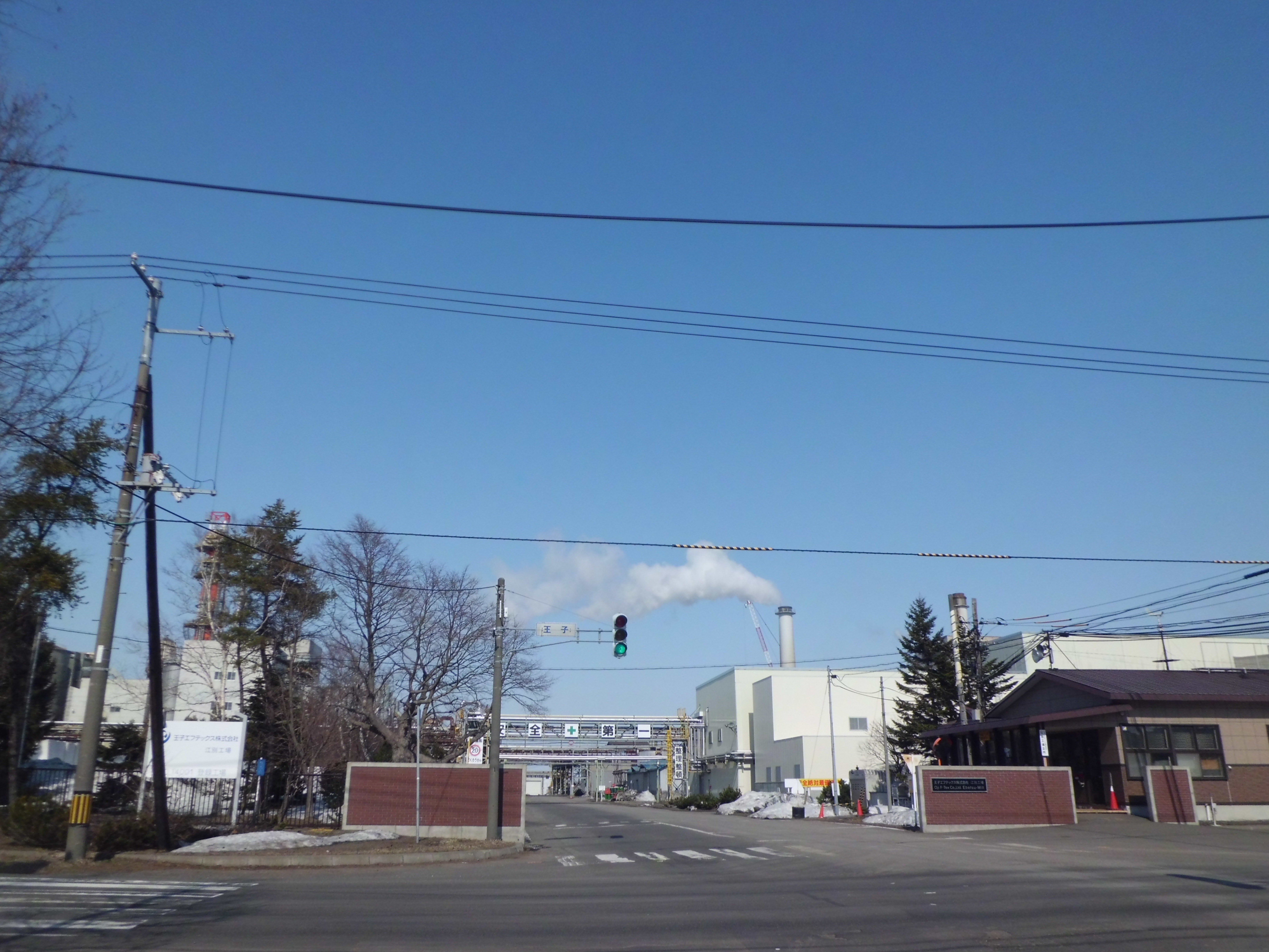 Oji F-Tex Ebetsu Factory